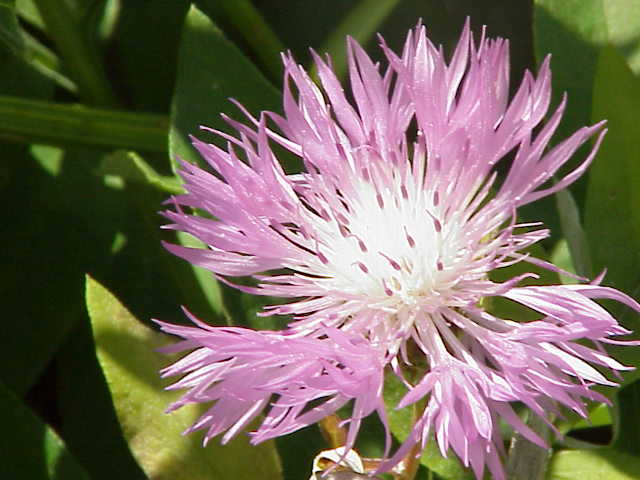 Species: Centaurea pulcherrima Family: Compositae Image No. 1